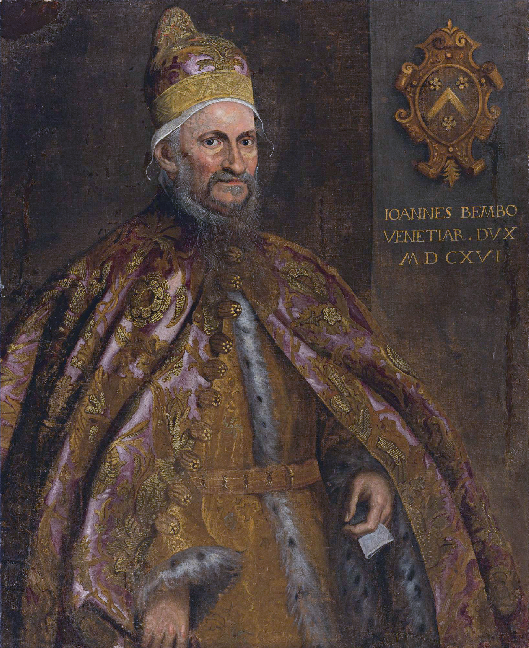 Portrait of the doge of Venice Giovanni Bembo. Oil on canvas by Tintoretto, 1616.